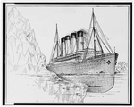 Iceberg teared gash in the hull of the Titanic.